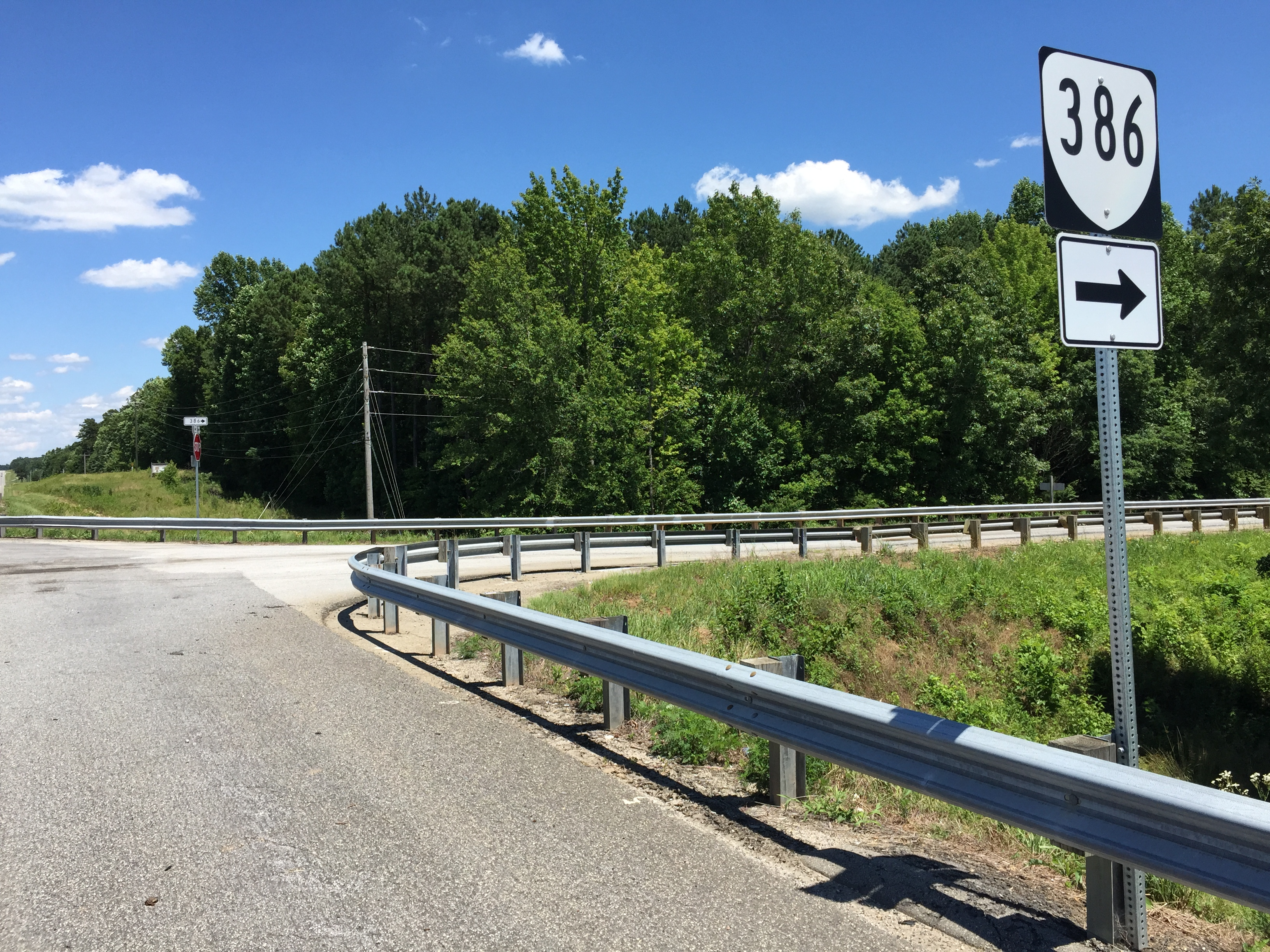 View south along Virginia State Route 386 (Prison Road) at U.S. Route 58 just northeast of Boydton in Mecklenburg County, Virginia